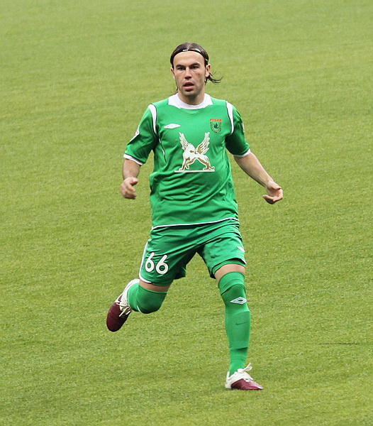 Bibras Natkho